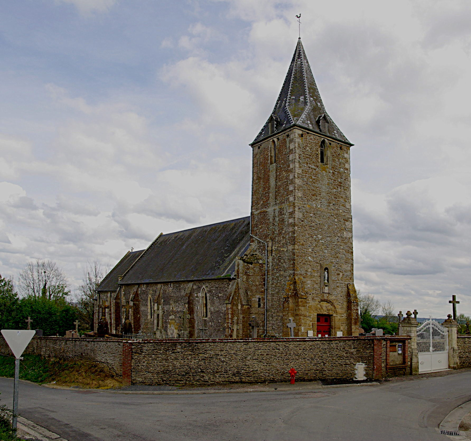 Saint Jean-Baptiste'church in Curcy-sur-Orne, Calvados 14 France